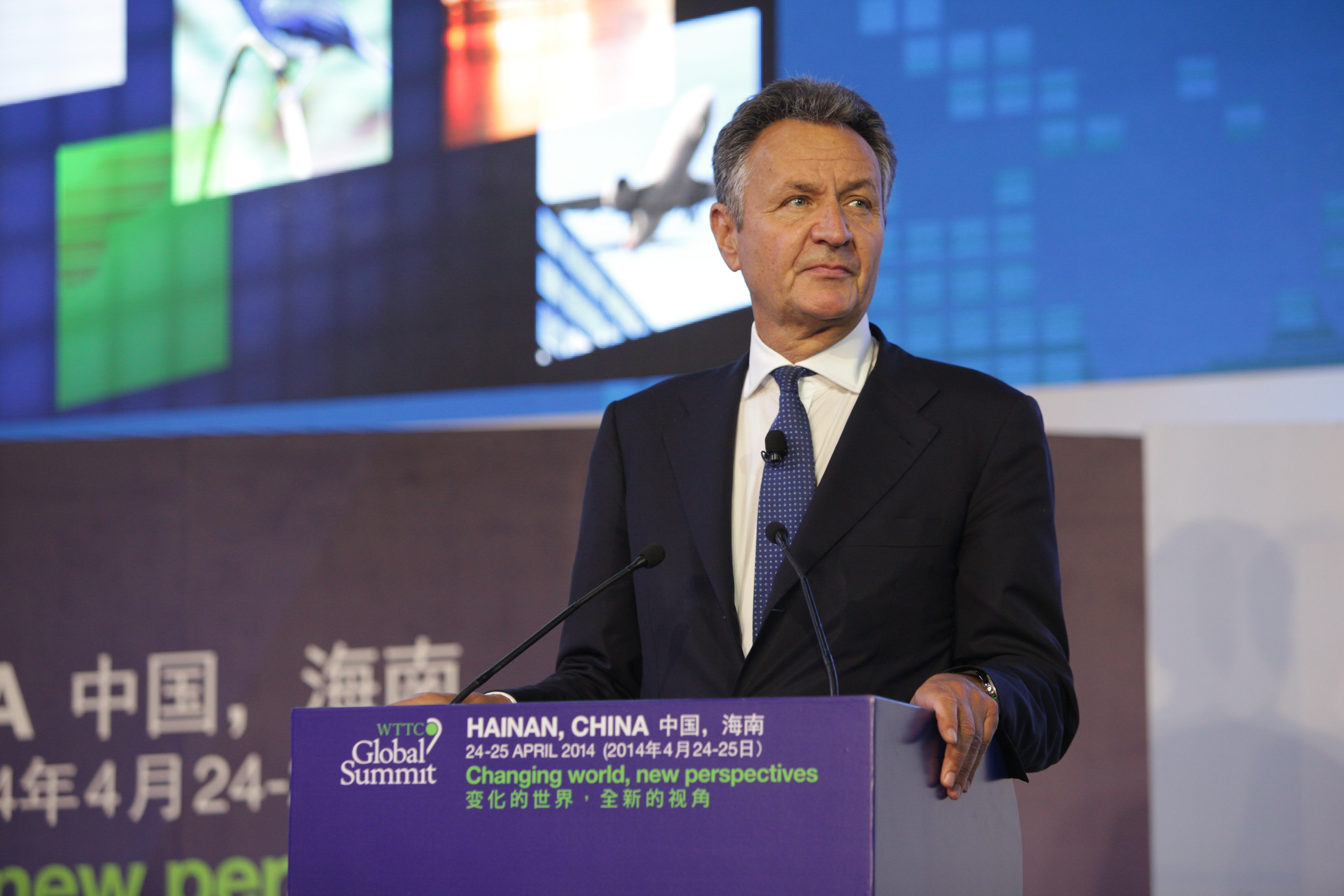 Michael Frenzel, Chairman, WTTC World Travel & Tourism Council Flickr images